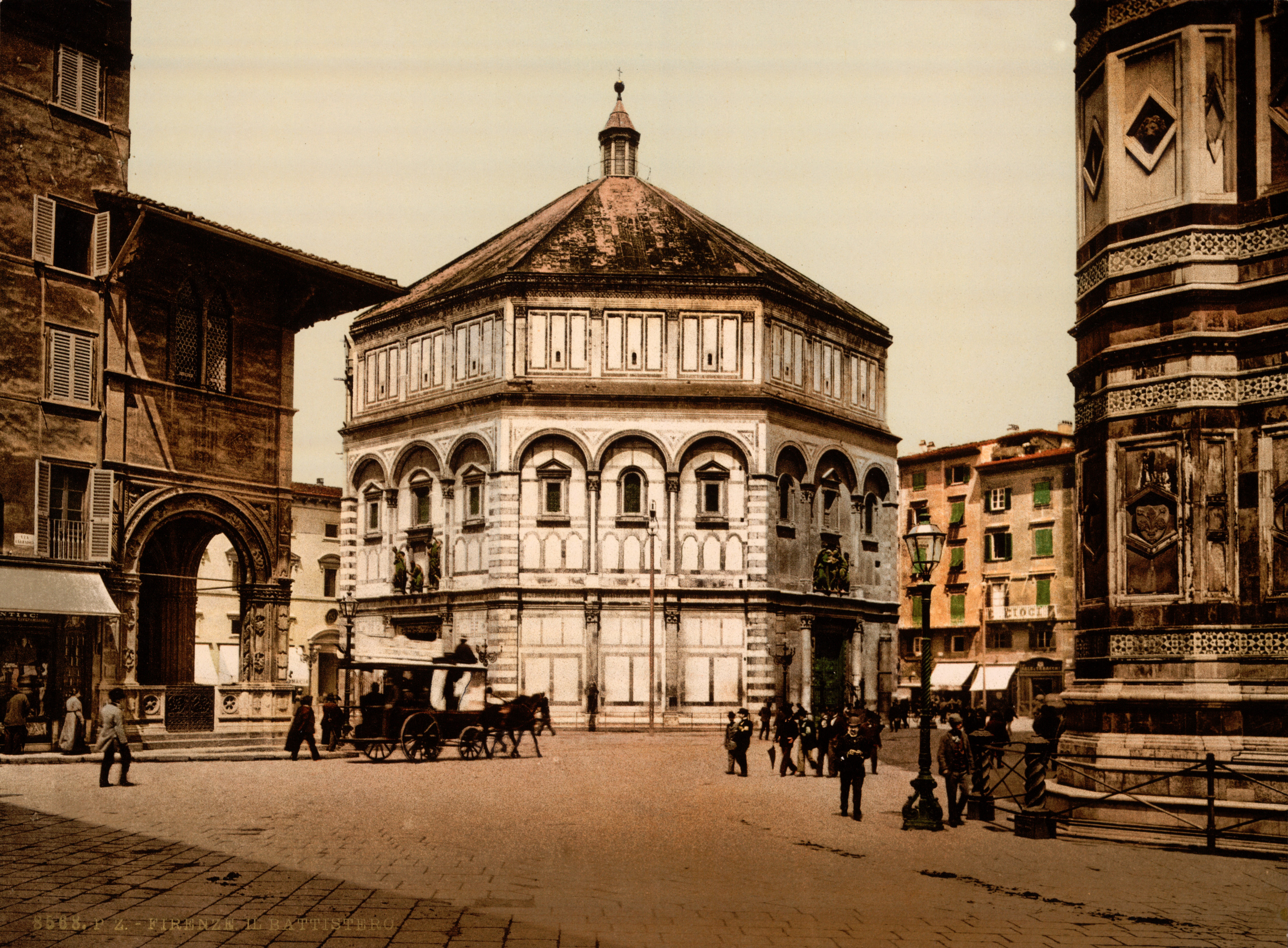 8568 P.Z. Firenze. Il Battistero. Photochrom print by Photoglob Zürich, between 1890 and 1900. From the Photochrom Prints Collection at the Library of Congress More photochroms from Italy | More photochrom prints [PD] This picture is in the public domain